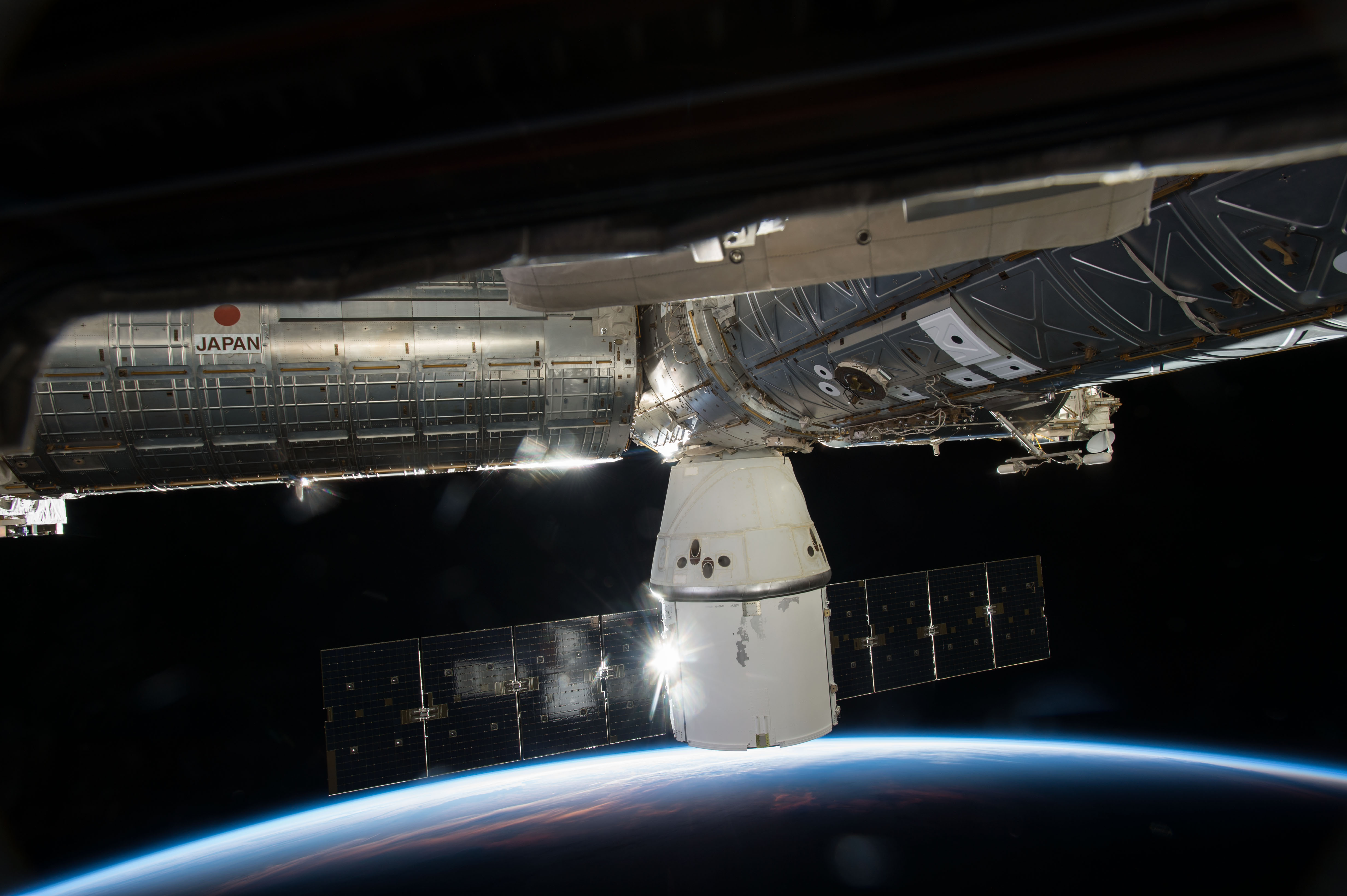 SpaceX's Dragon cargo capsule is seen here docked to the Earth facing port of the Harmony module. SpaceX's sixth commercial resupply flight to the International Space Station launched on April 14th and arrived three days later. It will depart with over 3,100 pounds of research samples and equipment and splashdown in the Pacific Ocean on May 21.